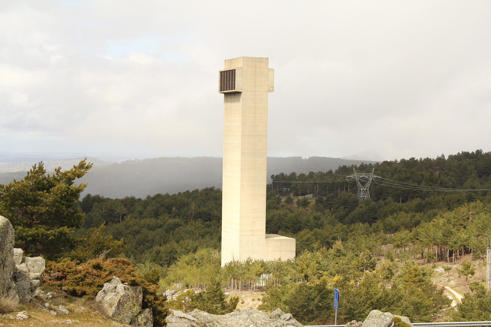 Ventilation tower of the Guadarrama tunnels